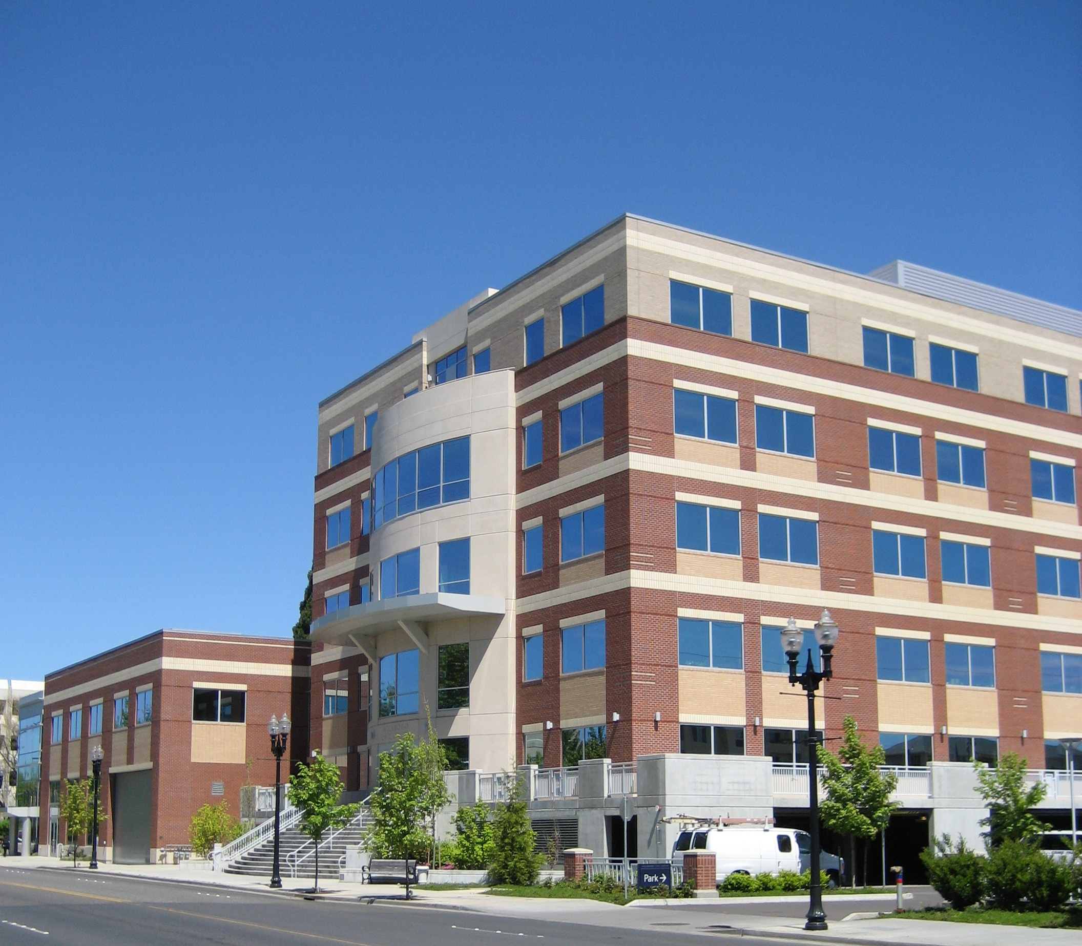 The Hillsboro Civic Center in downtown Hillsboro. The western portion across 1st street